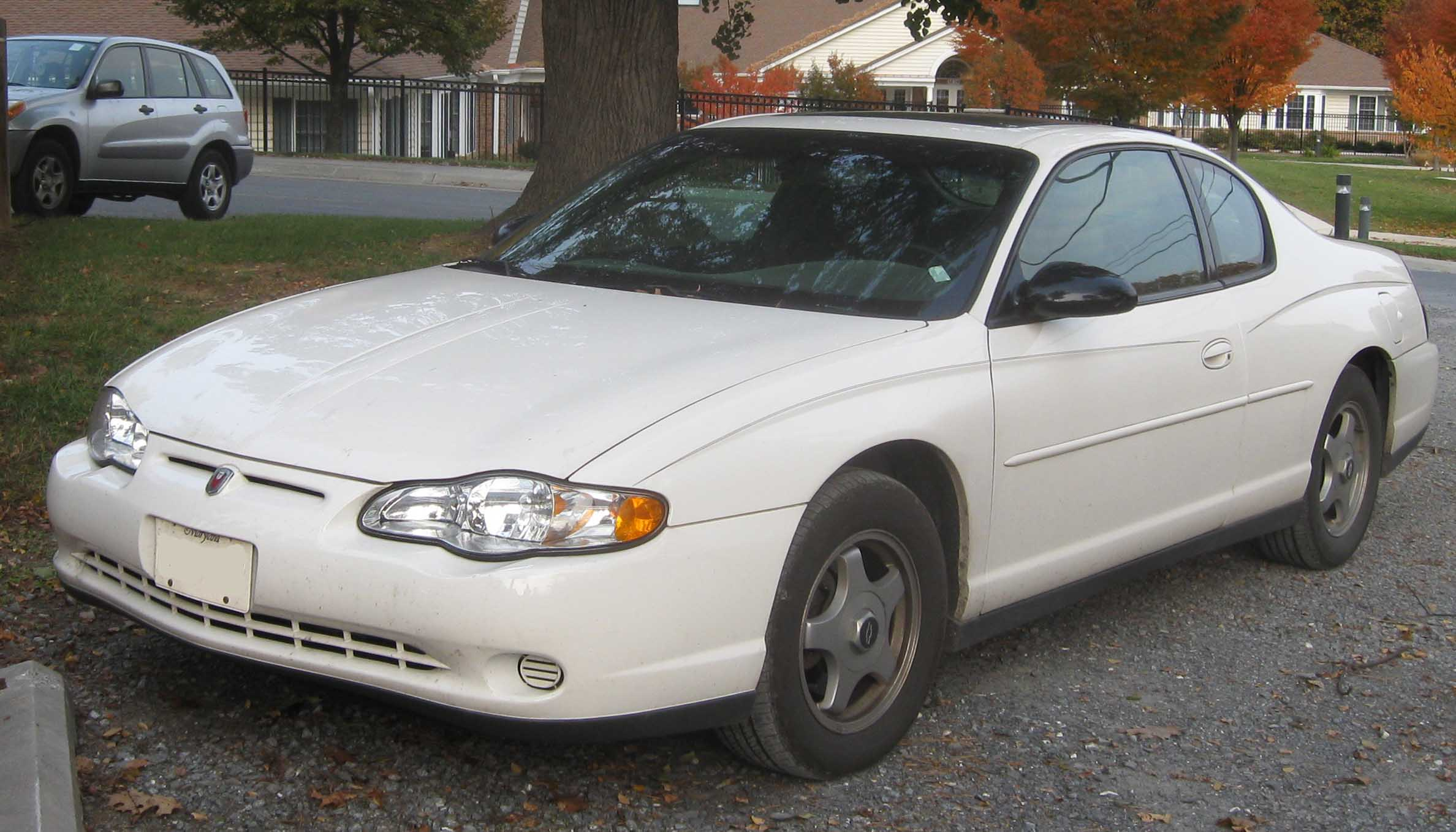 2000-2005 Chevrolet Monte Carlo photographed in Olney, Maryland, USA.